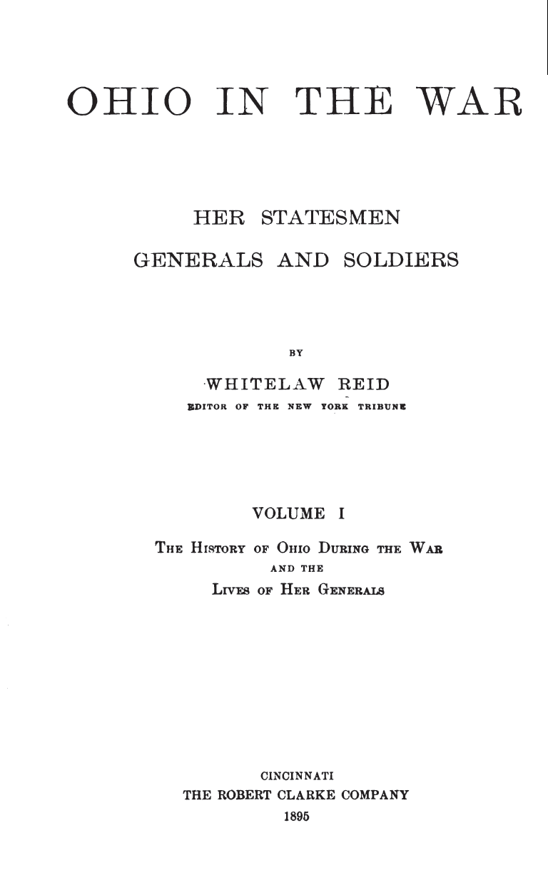 title page of a book called Ohio in the War